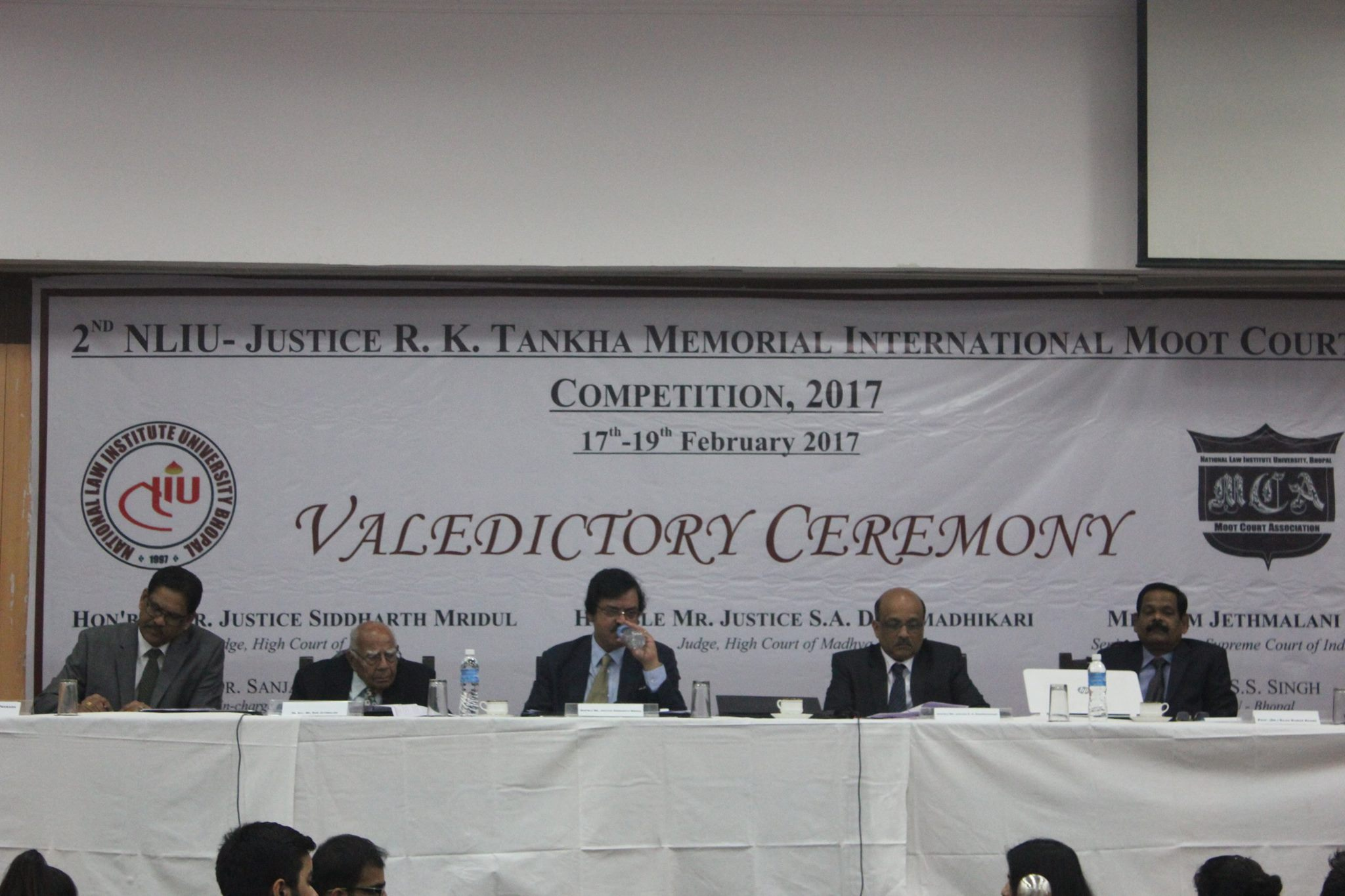 moot valedictory